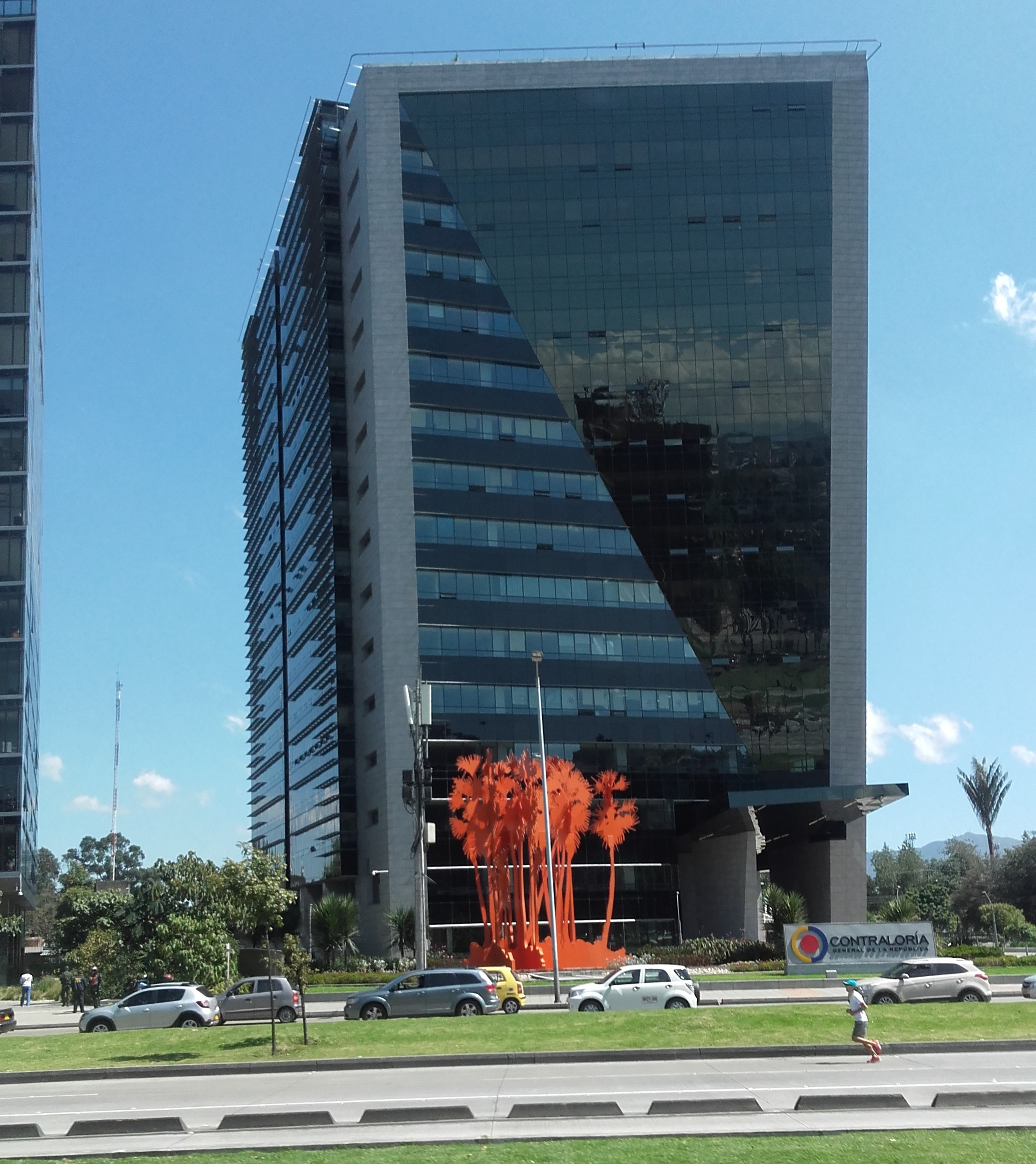 Contraloría de Colombia - Bogotá